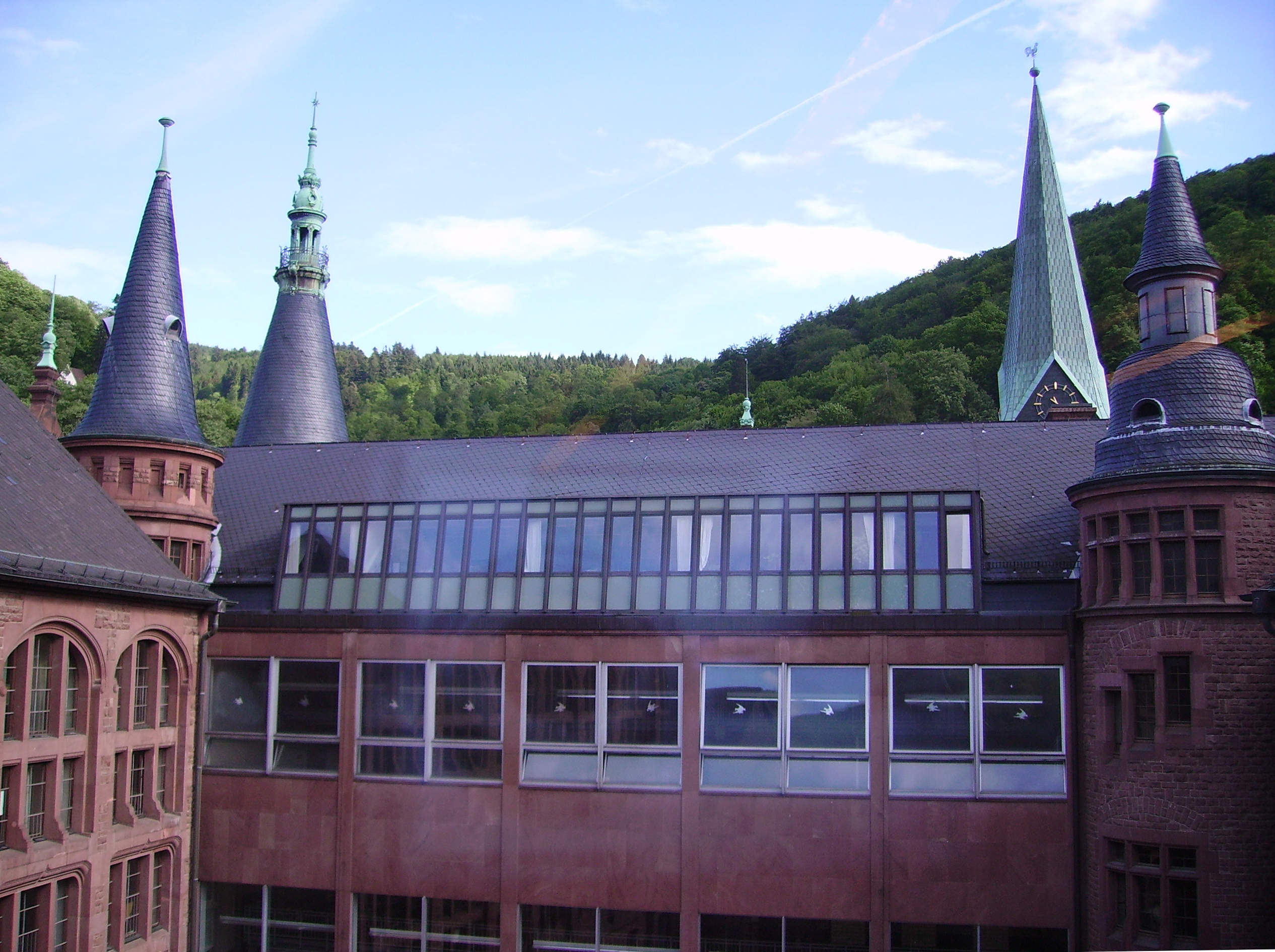 university of Heidelberg, Germany